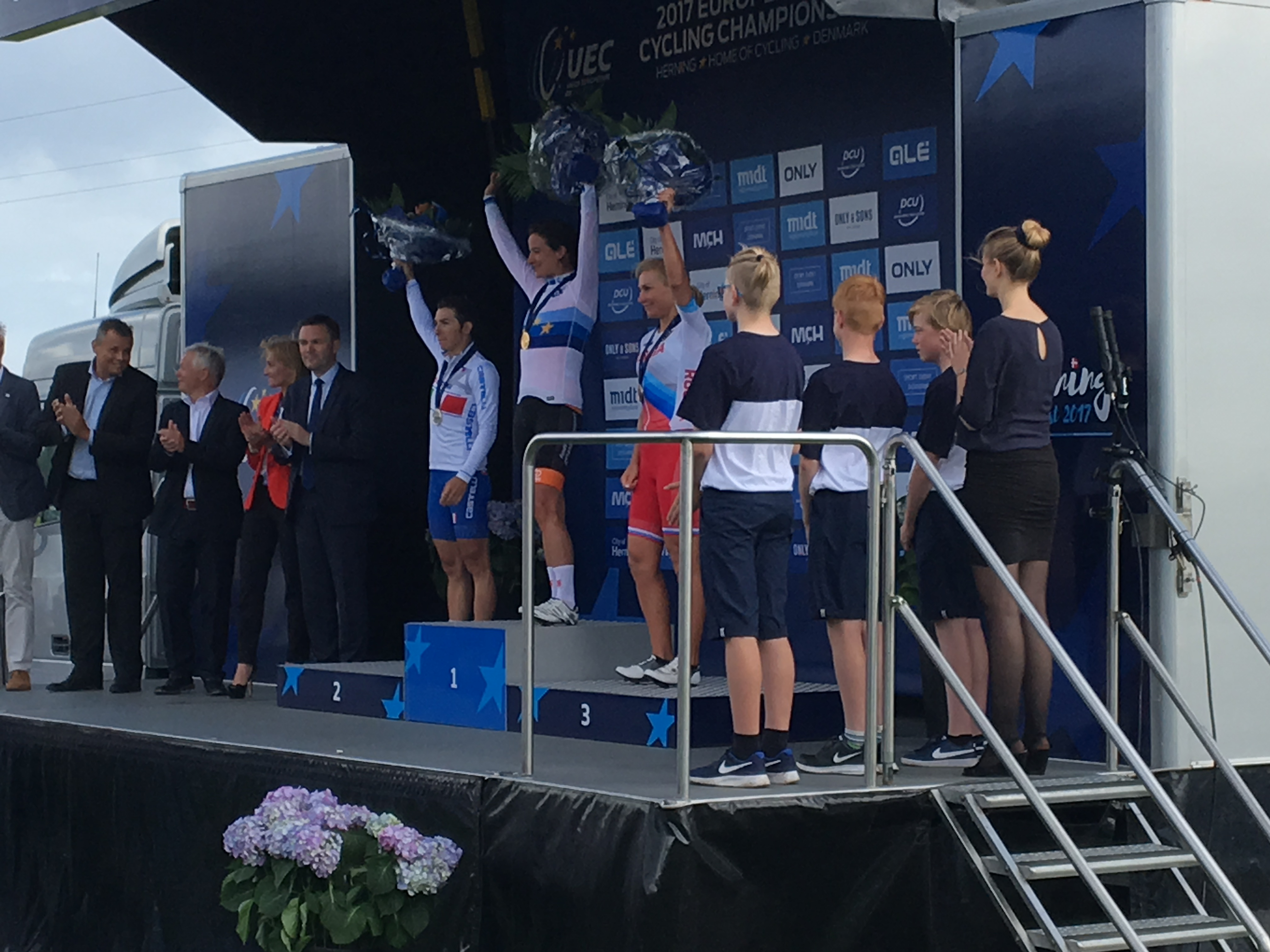 2017 European Road Championships – Women's road race, Podium